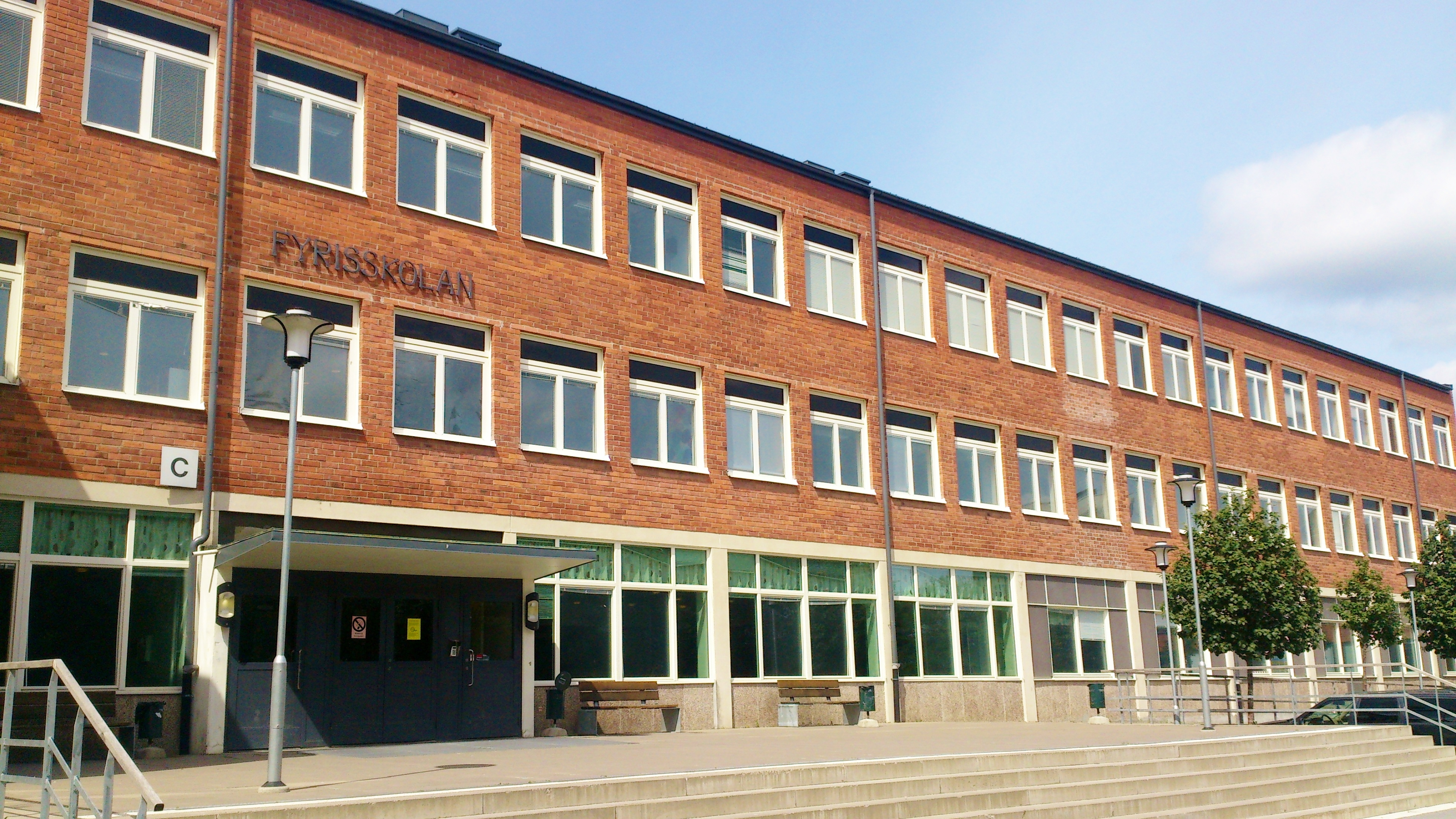 Fyrisskolan in Uppsala June 25, 2014